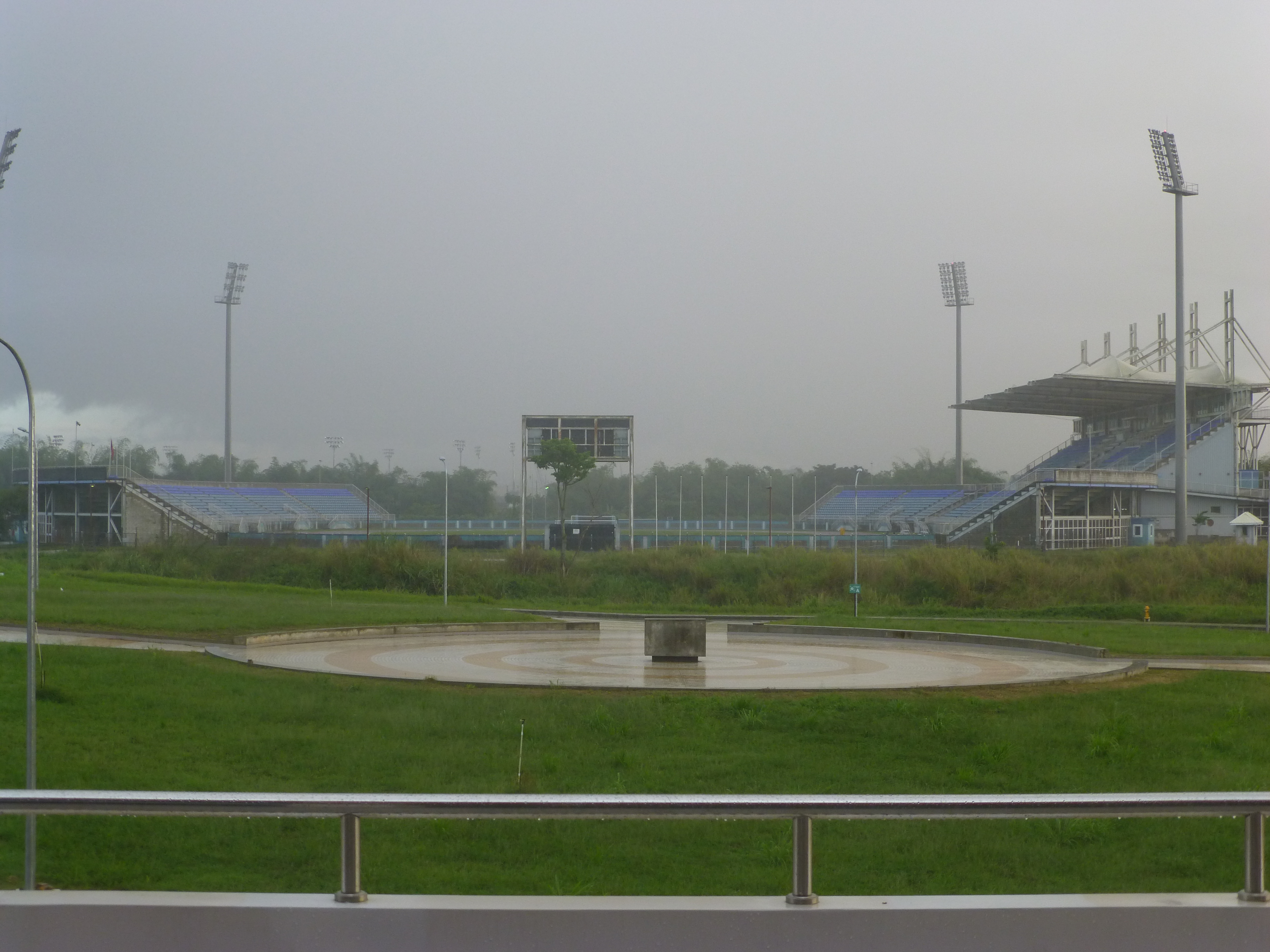 Ato Boldon Stadium, a football stadium in Couva, Couva-Tabaquite-Talparo, Trinidad and Tobago.